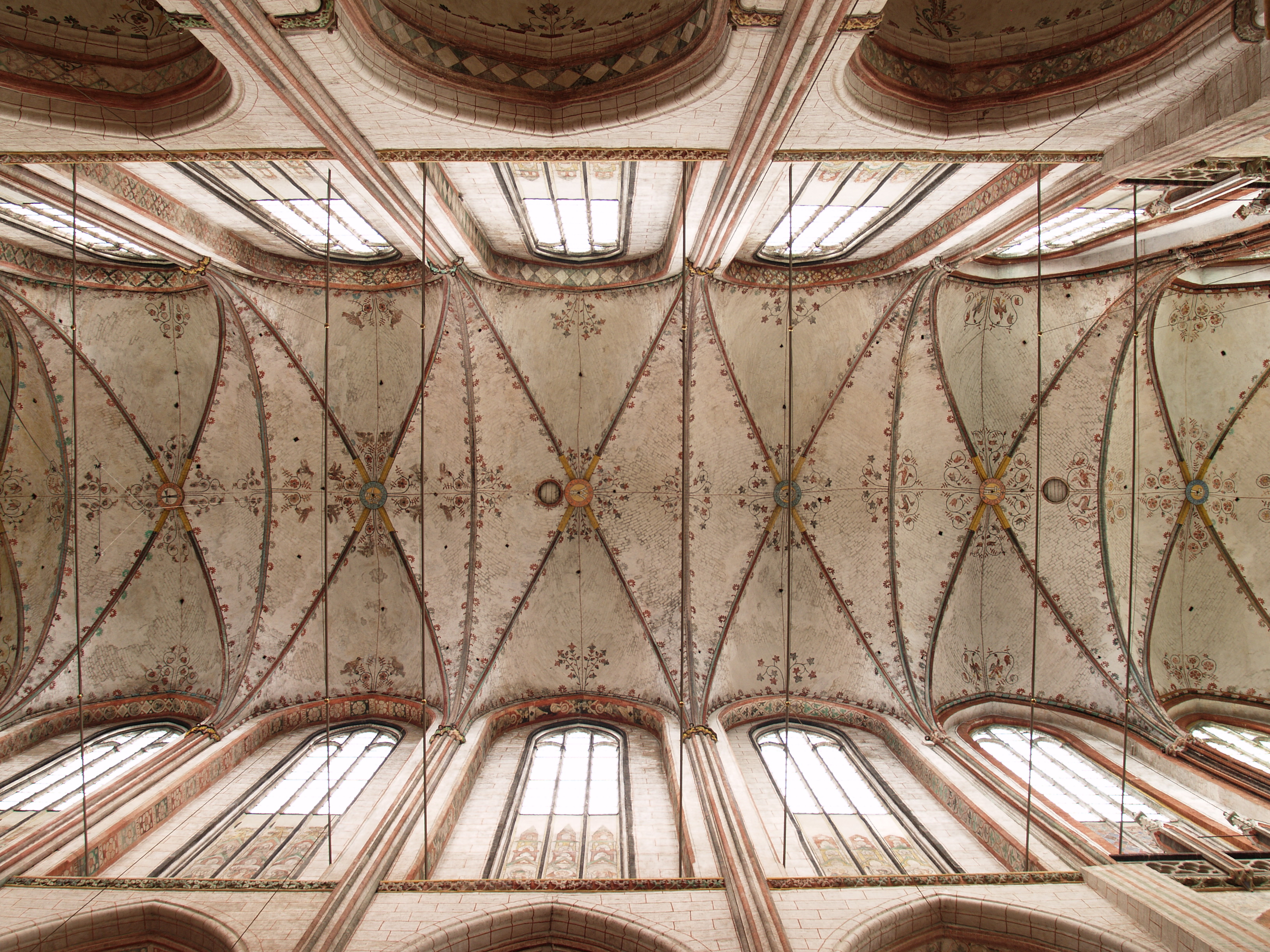 Quadripartite cross-ribbed vaults, main nave of the church of St. Mary in Luebeck, Germany.